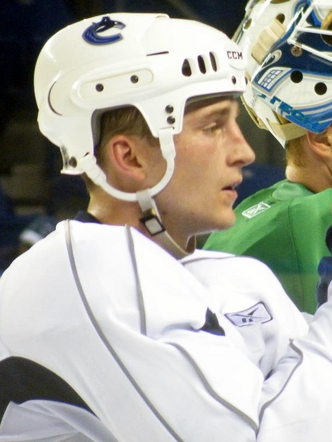 Vancouver Canucks forward Rick Rypien during training camp in 2009.